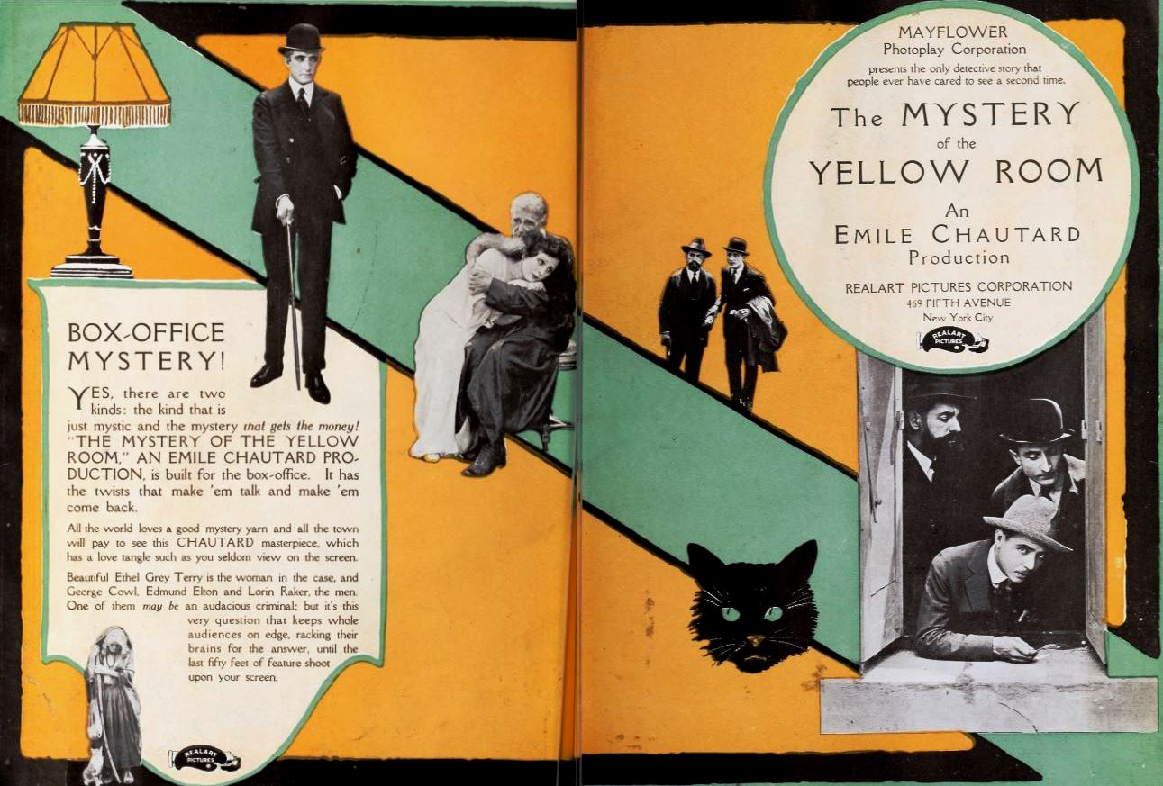 Advertisement for the American film The Mystery of the Yellow Room (1919) with Ethel Grey Terry, Lorin Raker (1891 – 1959), George Cowl (1878 – 1942), and Edmund Elton (1870 – 1952), from an insert after page 18 of the January 3, 1920 Exhibitors Herald.